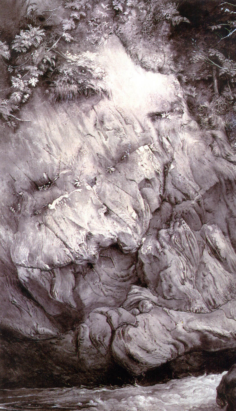 Study of Gneiss Rock, Glenfinlass. Pen, brown ink, ink wash (lamp-back) and bodycolour, 47.7 x 32.7 cm. Ashmolean Museum, Oxford, England